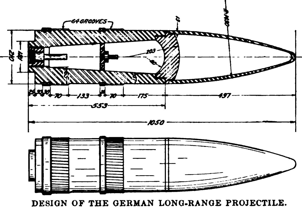 Diagrams showing structure of 210-mm shell for German Paris Gun of World War I.